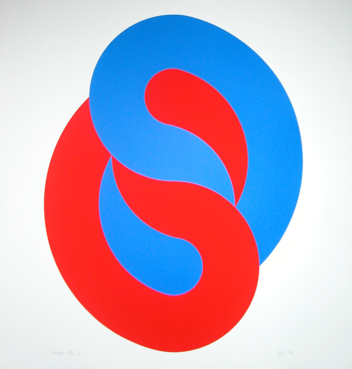 Drop